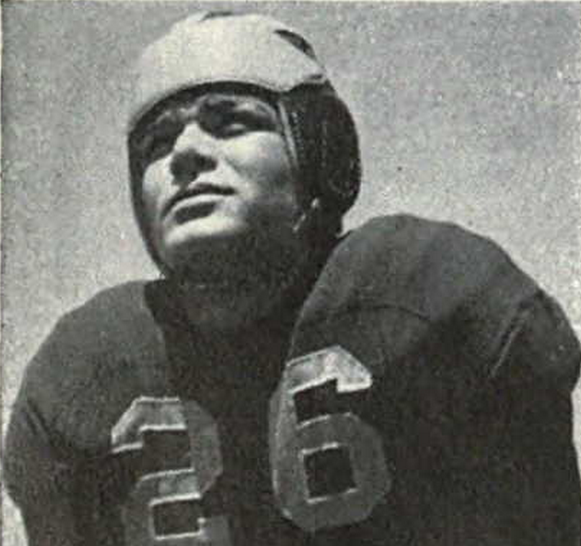 Photograph of Joe Ponsetto